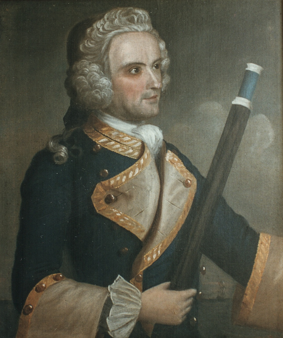 Admiral Sir Charles Knowles 1st Bt. Portrait of him when Governor of Louisburg, hangs in Portsmouth Atheneum